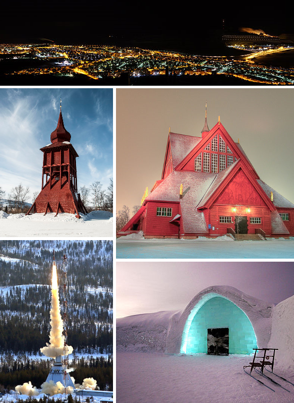 Montage of various photos from Kiruna, Sweden.